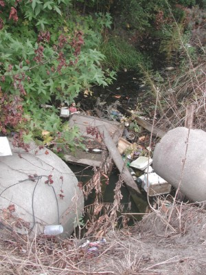 Litter in Roadside Ditch )